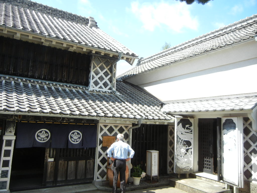 Nakazetei@Matsuzaki. 静岡県松崎町にある「中瀬邸」, Matsuzaki.